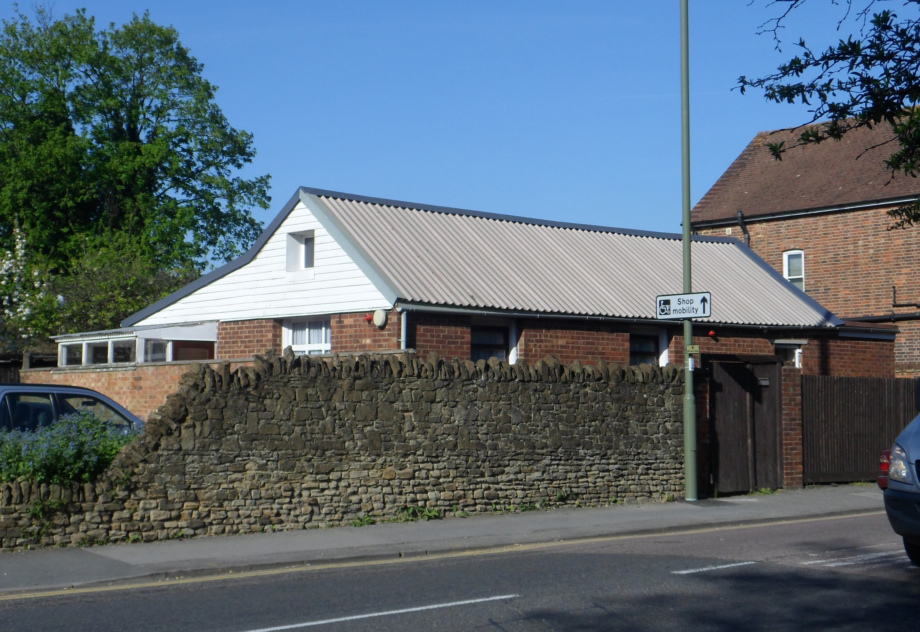 Guildford Synagogue, York Road, Guildford, Surrey, England, seen from the southwest